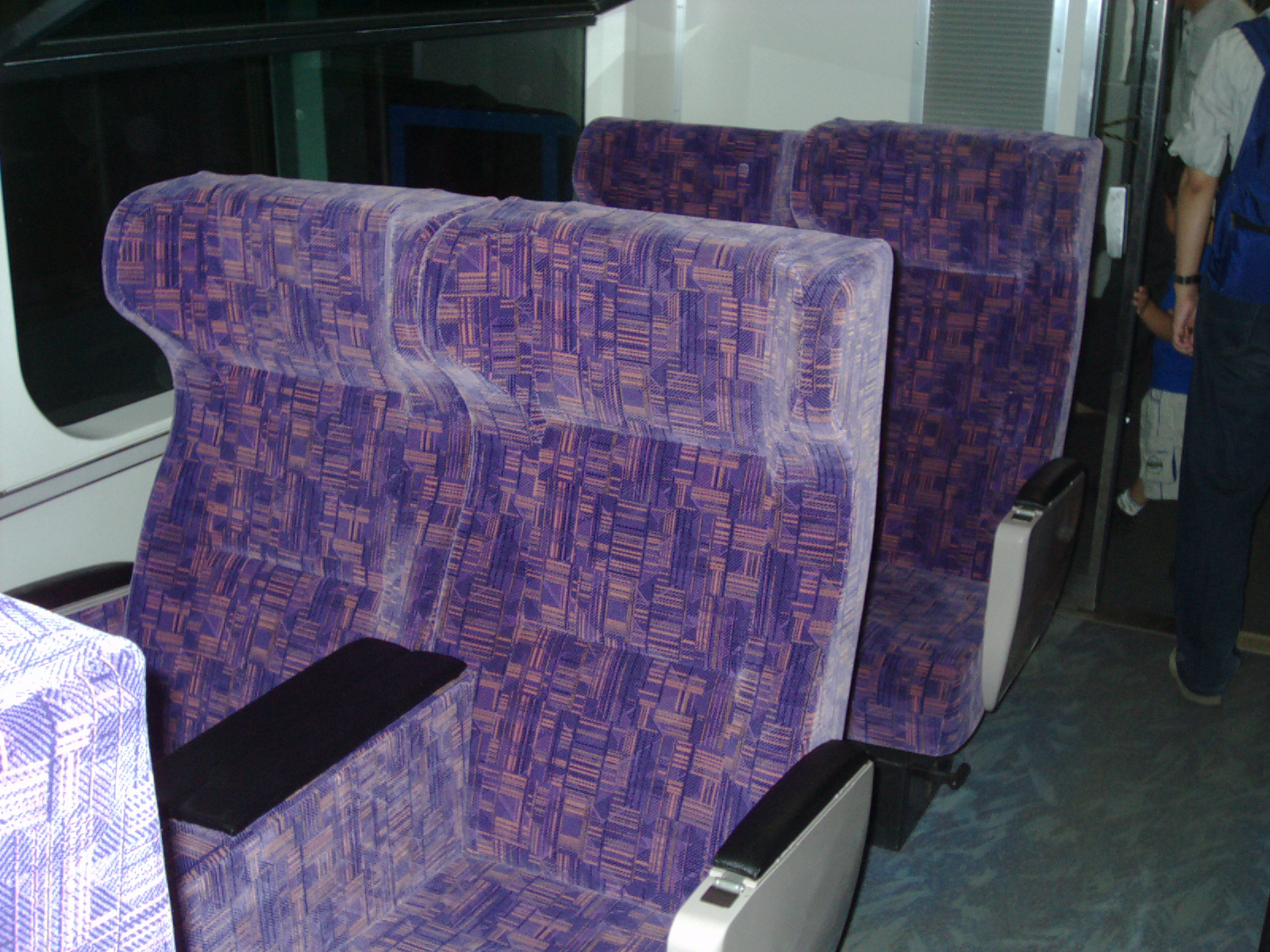 The interior of the green car of E993 Series